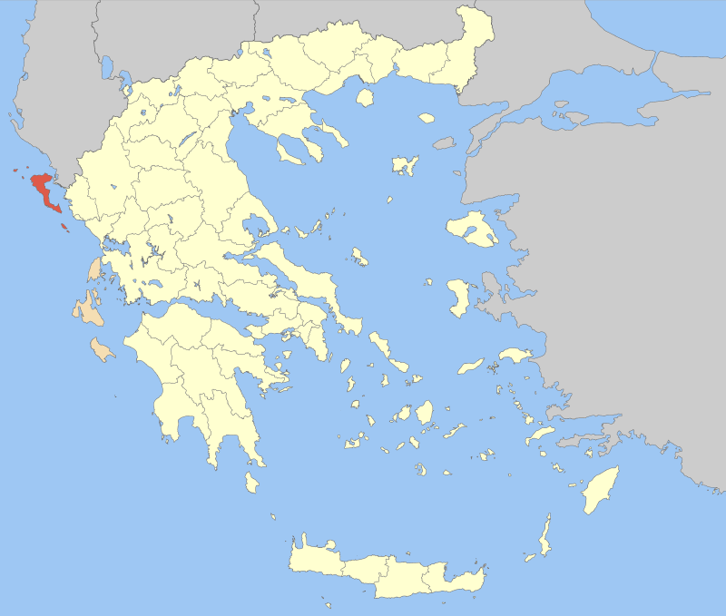 Locator map of Corfu (Kerkyra) prefecture (Νομός Κέρκυρας) in Greece